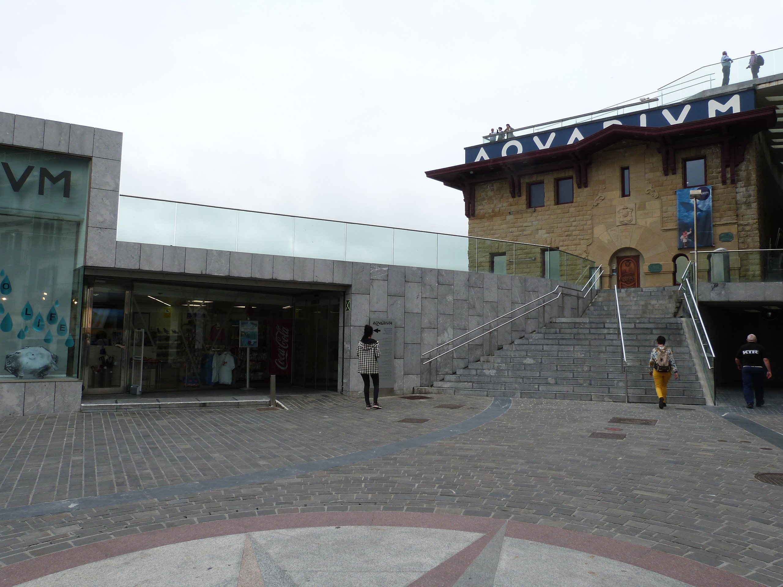 Aquarium of Donostia - San Sebastián, Spain